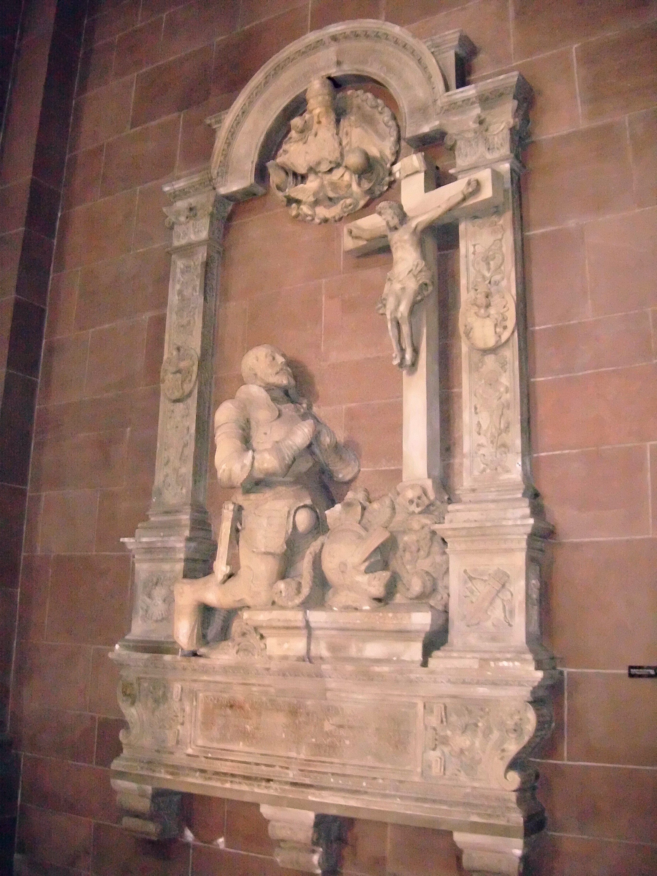 Grabmal des Domherrn Eberhard von Heppenheim genannt vom Saal († 1559), im Wormser Dom